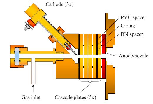 Schematic drawing of a Cascaded Arc Plasma Source